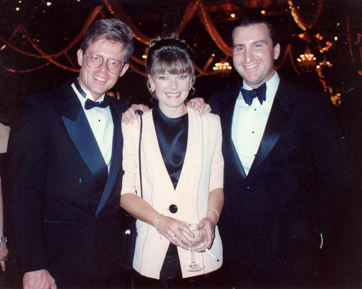 Photo taken at the 41st Emmy Awards 9/17/89